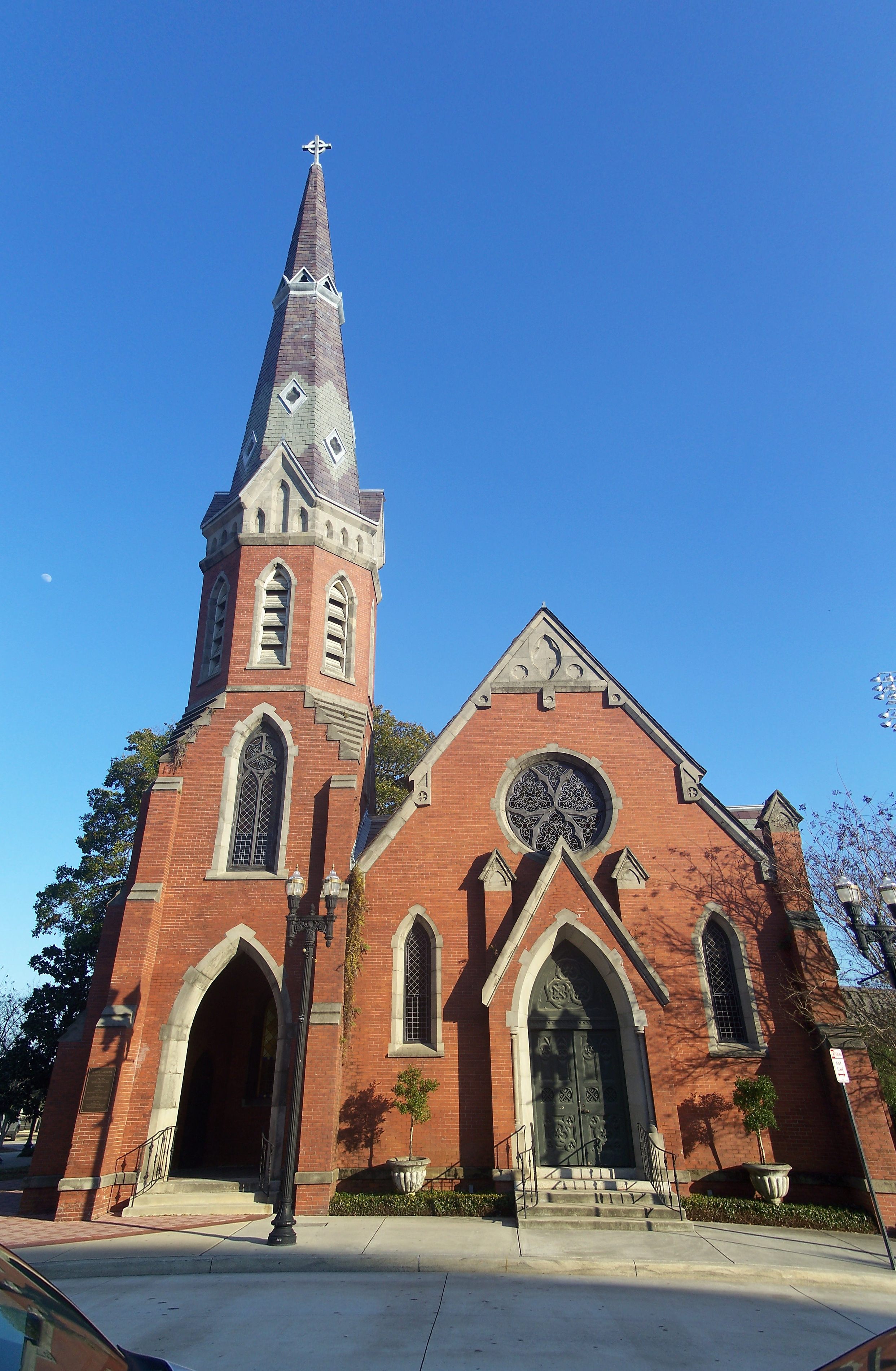 Jacksonville, Florida: St. Andrew's Episcopal Church